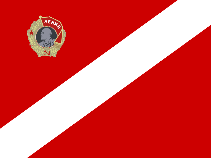 Flag of the Moscow football club Spartak, with the Ordem of Lenin.